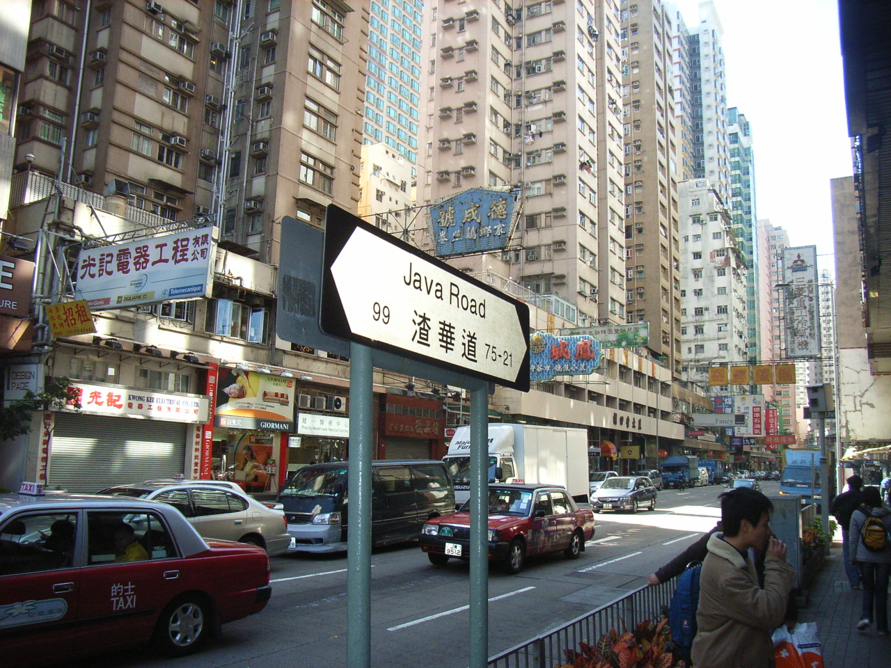 Java Road, North Point, Hong Kong Photographer is User:Huang Kong Hing